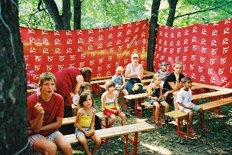 Kids and their parents watching a Punch and Judy show at the Volksstimmefest, organized by the Austrian Communist Party (KPÃ–) and held annually at the Prater on the first weekend in September. Volksstimme is the German word for voice of the people (vox populi). See also fest. Photo by KF, September 2002.